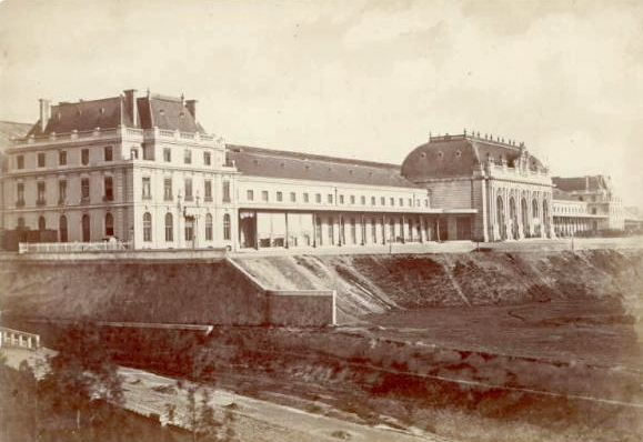 Pompeo Pozzi (1817-1880), The Central Station in Milan, Italy. This is the first building to bear this name. It was inaugurated in 1864 on the spot where currently stands Piazza della Repubblica square. The project was by French architect Louis-Jules Bouchot (1817-1907). It was demolished in the 1920s.